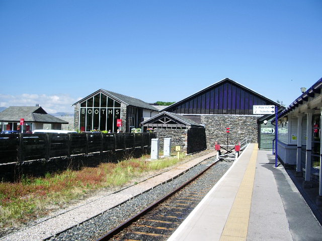 Dead end at Windermere railway station, Cumbria, England